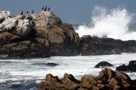 Offshore rock of the California Coastal National Monument near Monterey, California